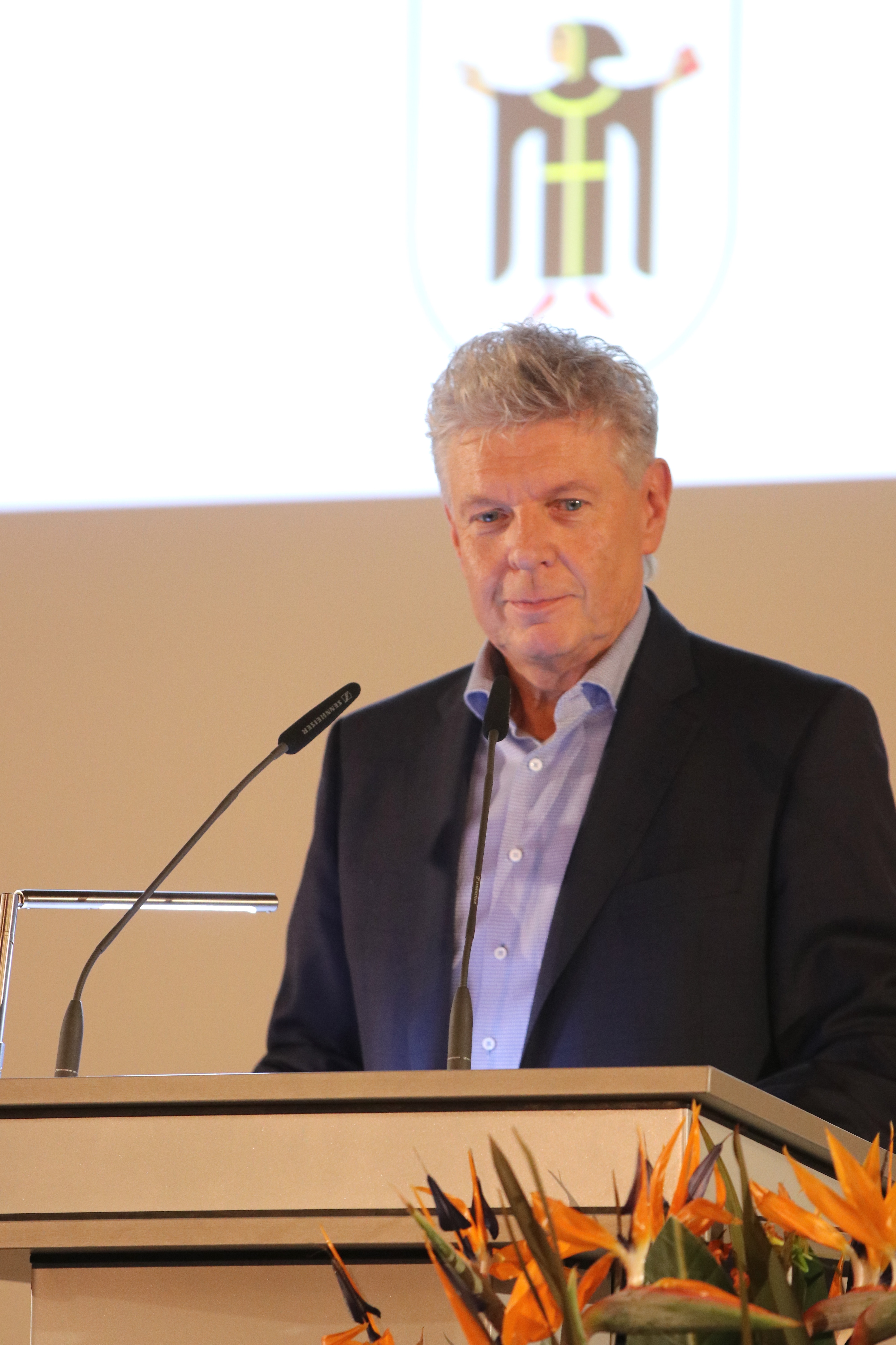 Dieter Reiter, Oberbürgermeister der Stadt München bei der Verleihung des Kulturellen Ehrenpreises an Gerhard Polt.